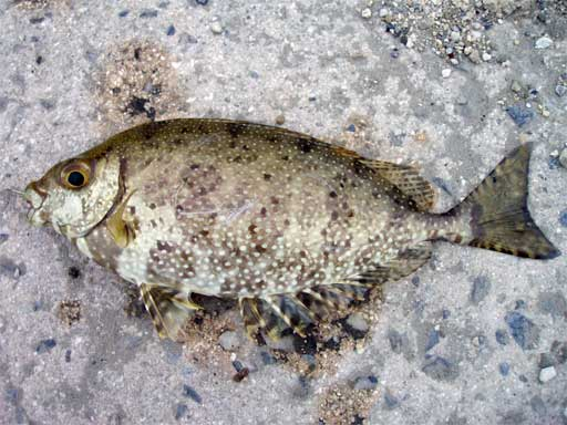 Siganus fuscescens粵語: 呢條係泥鯭